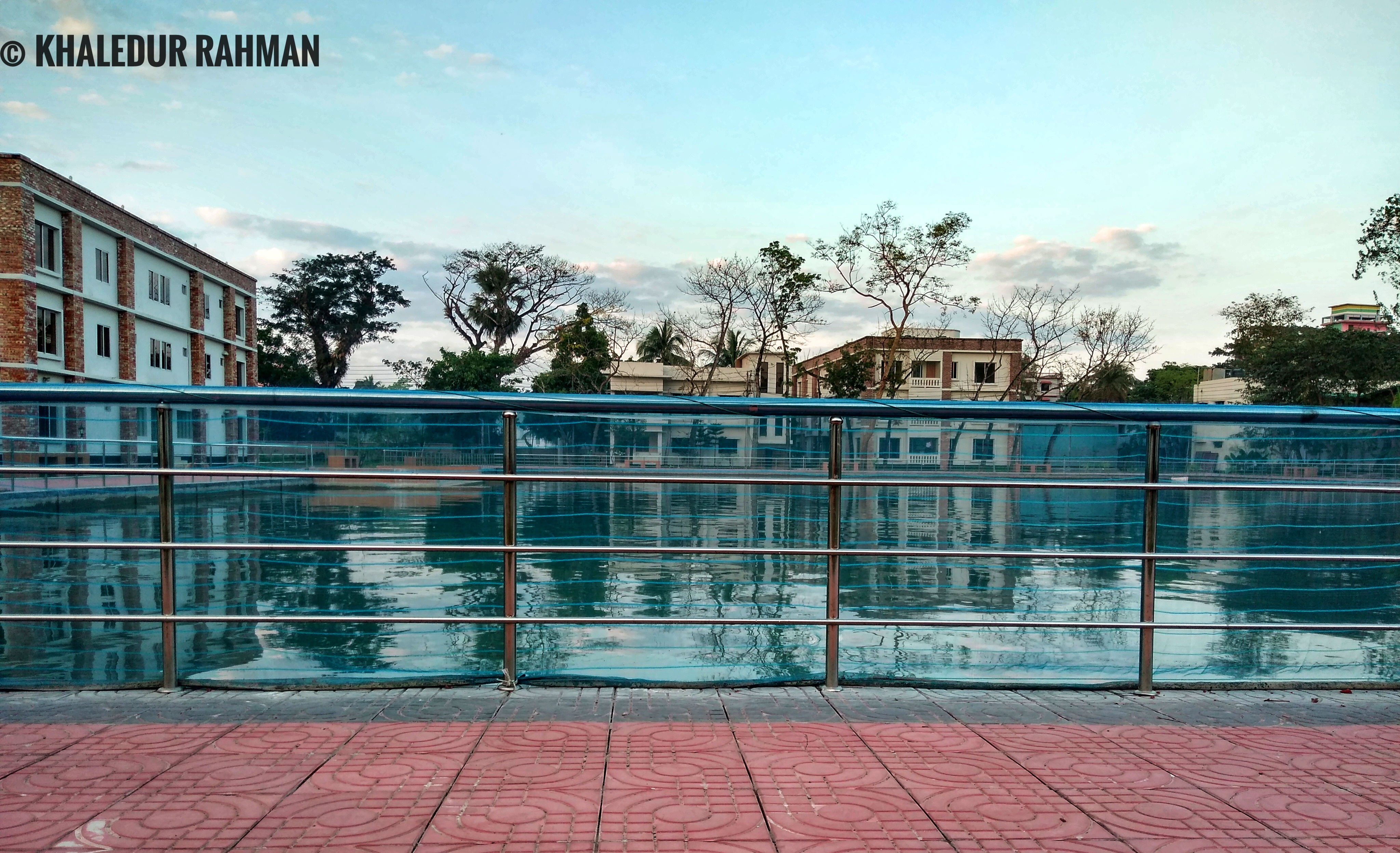 SARSTEC POND